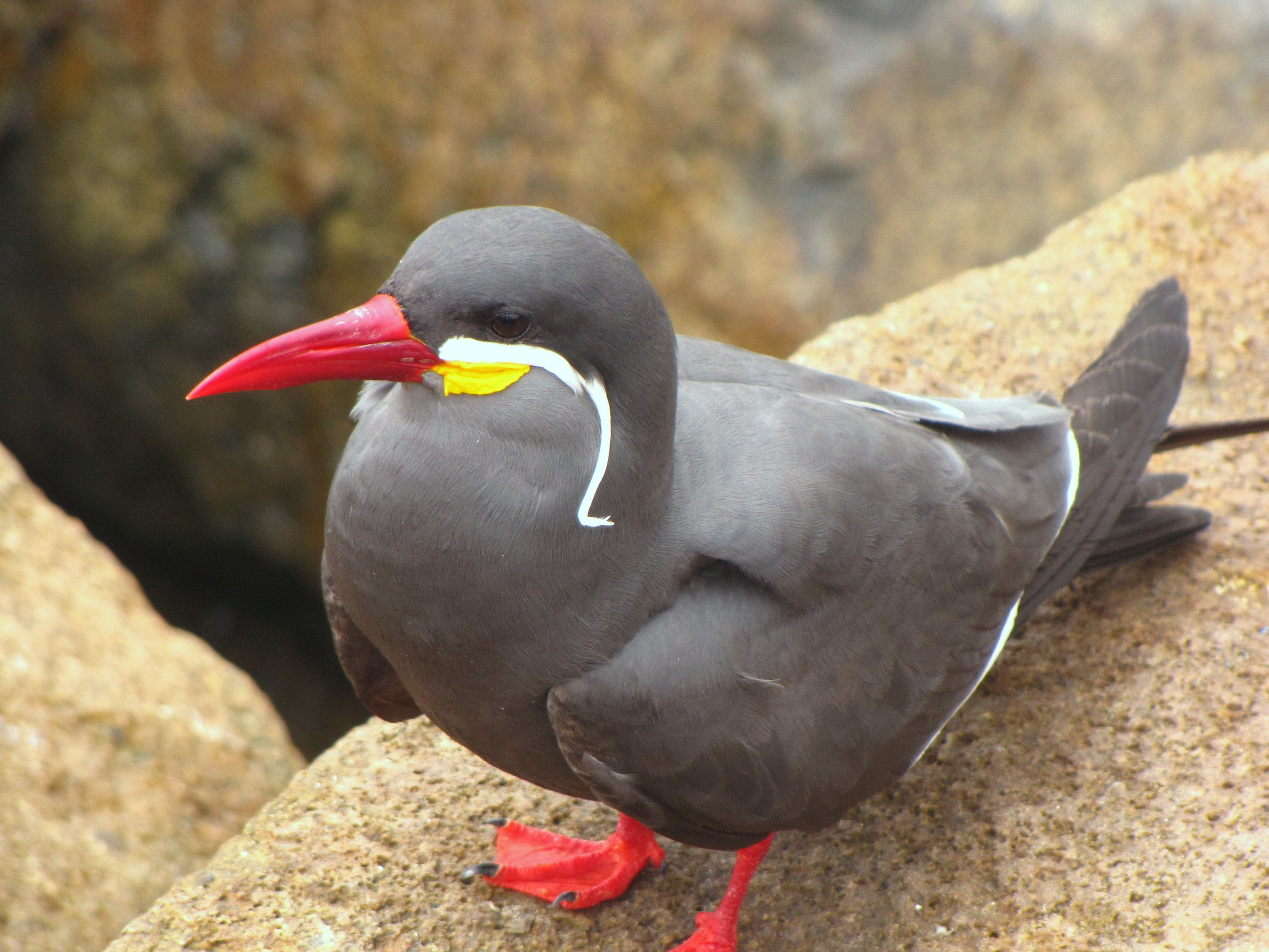 An adult Inca Tern in Lima, Peru.